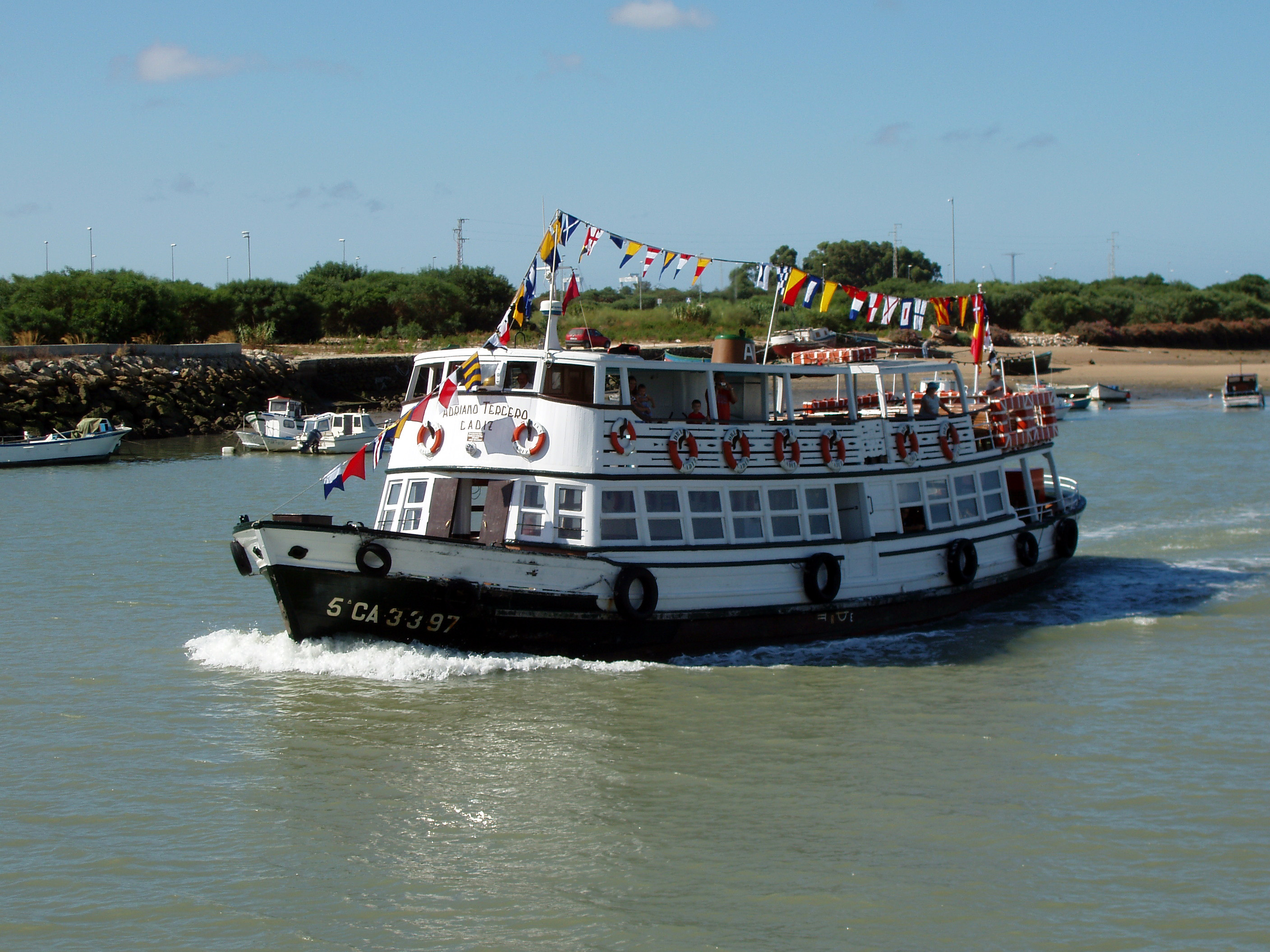 El Vaporcito de El Puerto at the mouth of the Guadalete. Photograph taken from the catamaran on the El Puerto-Cádiz route.